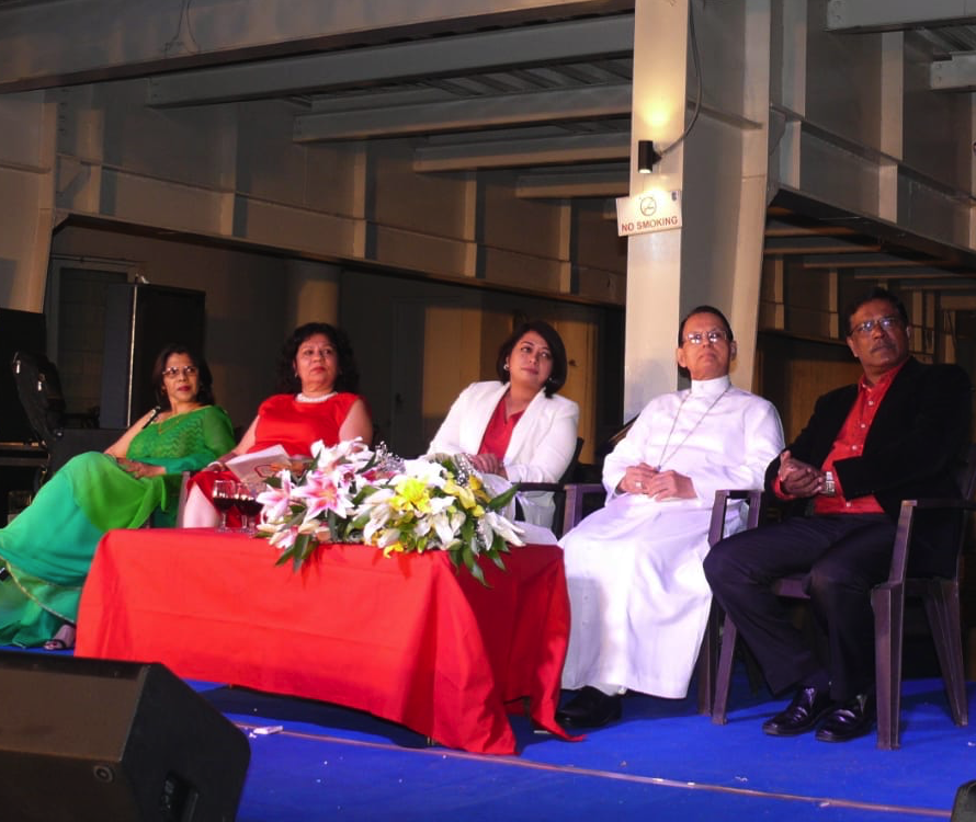 KCA Award given to Faye Dsouza by his Excellency, Bishop Henry Dsouza at the KCA Mistletoe Function, December 2018. Present from Left: Hilma Roach, Vice President, KCA, Marjorie Texeira, President, KCA, Faye Dsouza, Bishop Henry Dsouza and Rapheal Johnson, President Catholic Club